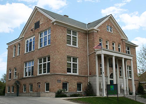 Shorewood Village Hall, Shorewood, National Registered Historic Place.